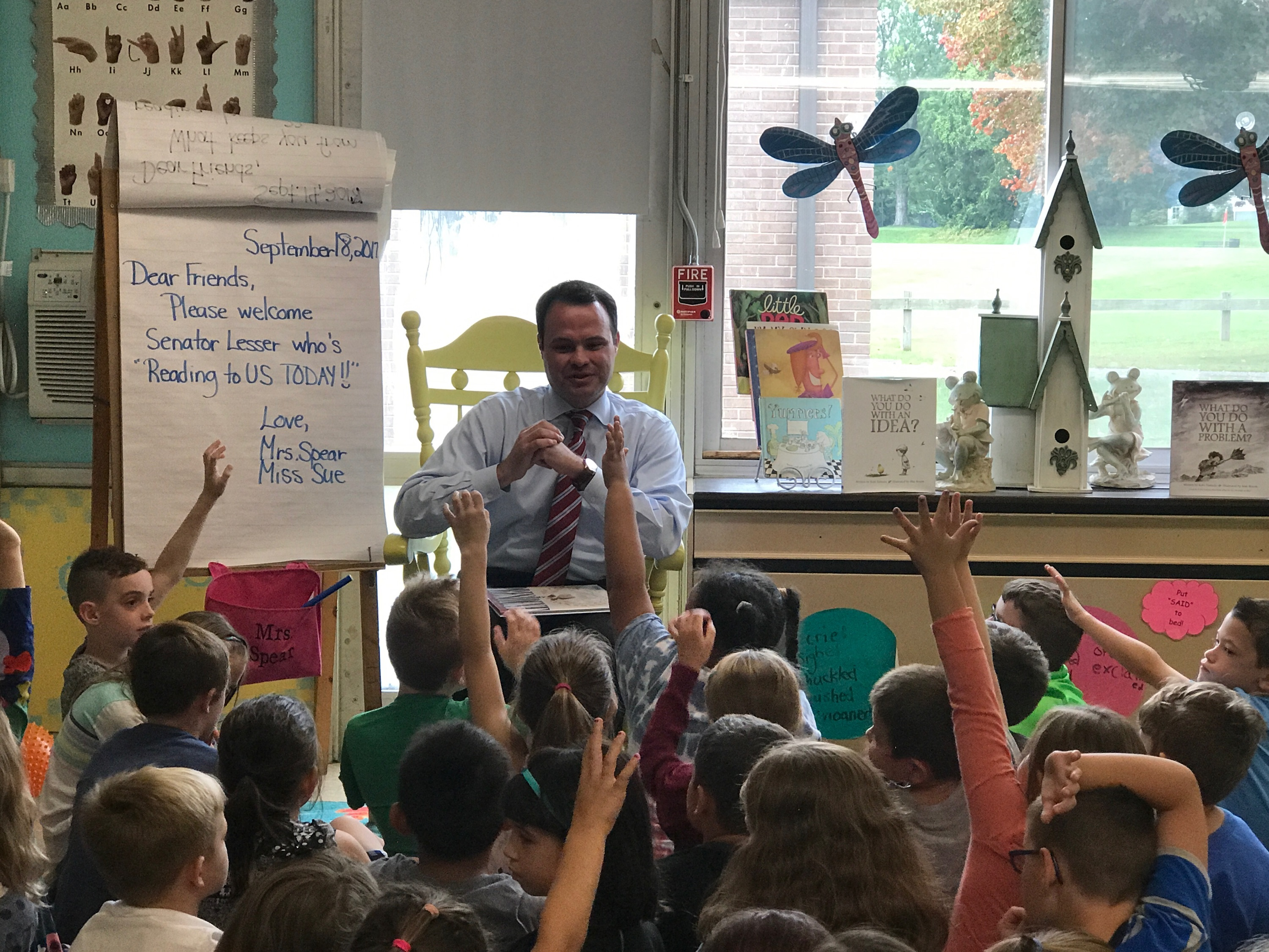 Sen. Lesser quizzes students on state government.